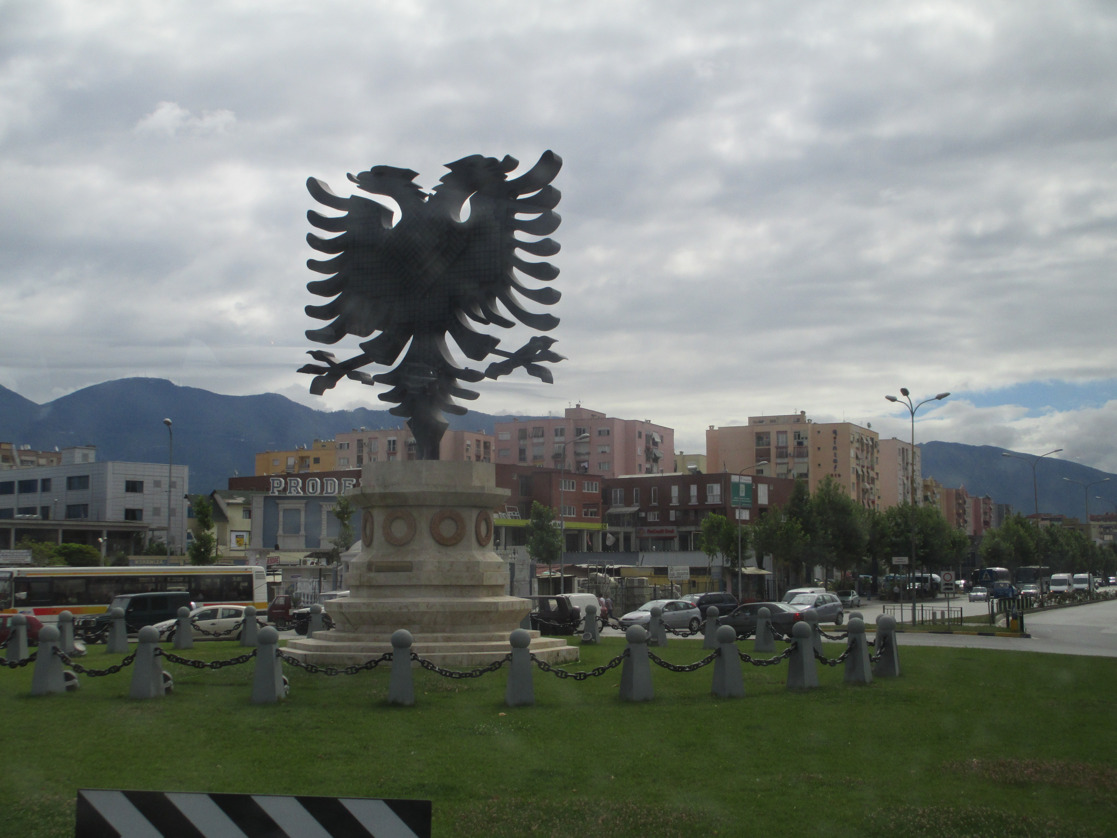 Albanian flag monument in Tirana